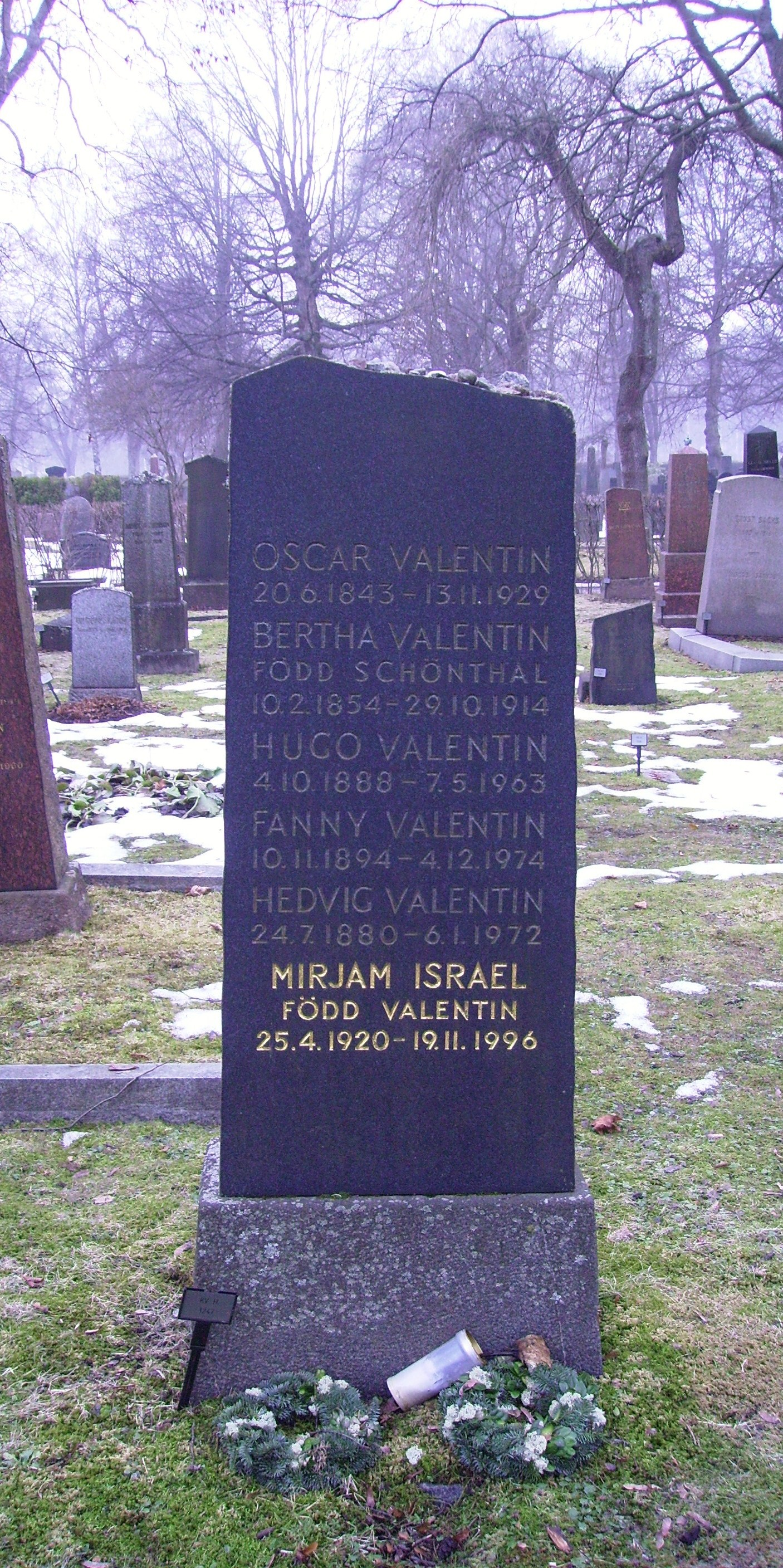 Picture of Hugo Valentin's grave at Judiska norra begravningsplatsen in Solna